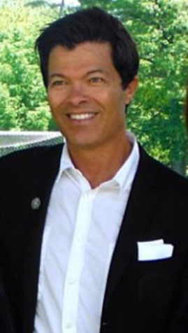 Dr Anthony Galea head shot in 2013.